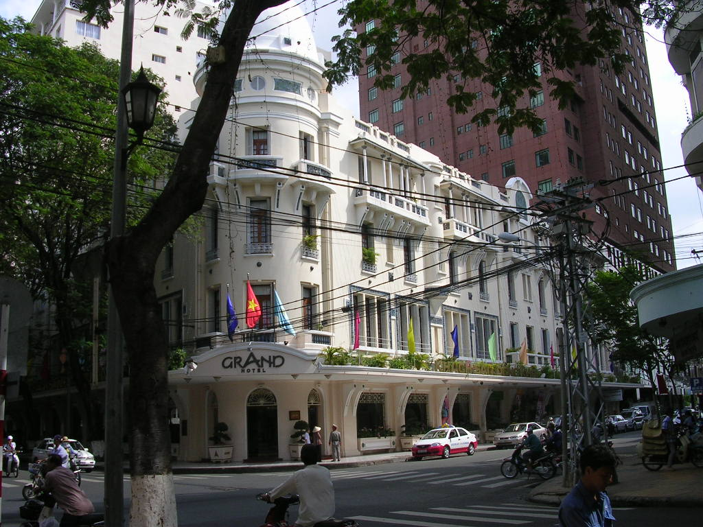 Grand Hotel in Ho Chi Minh City.